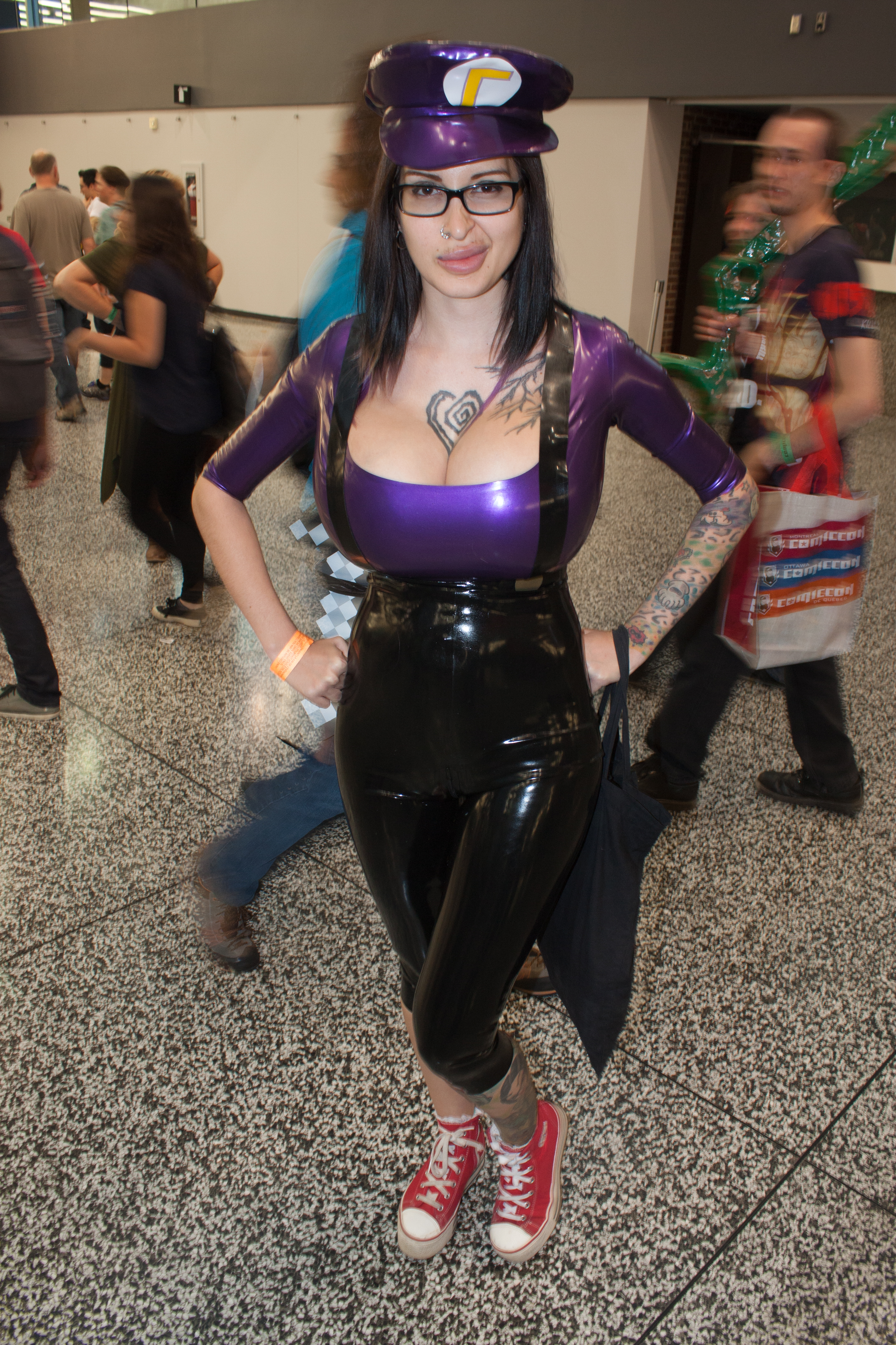 Cosplay on Friday, day one, of the Montreal Comiccon 2016.